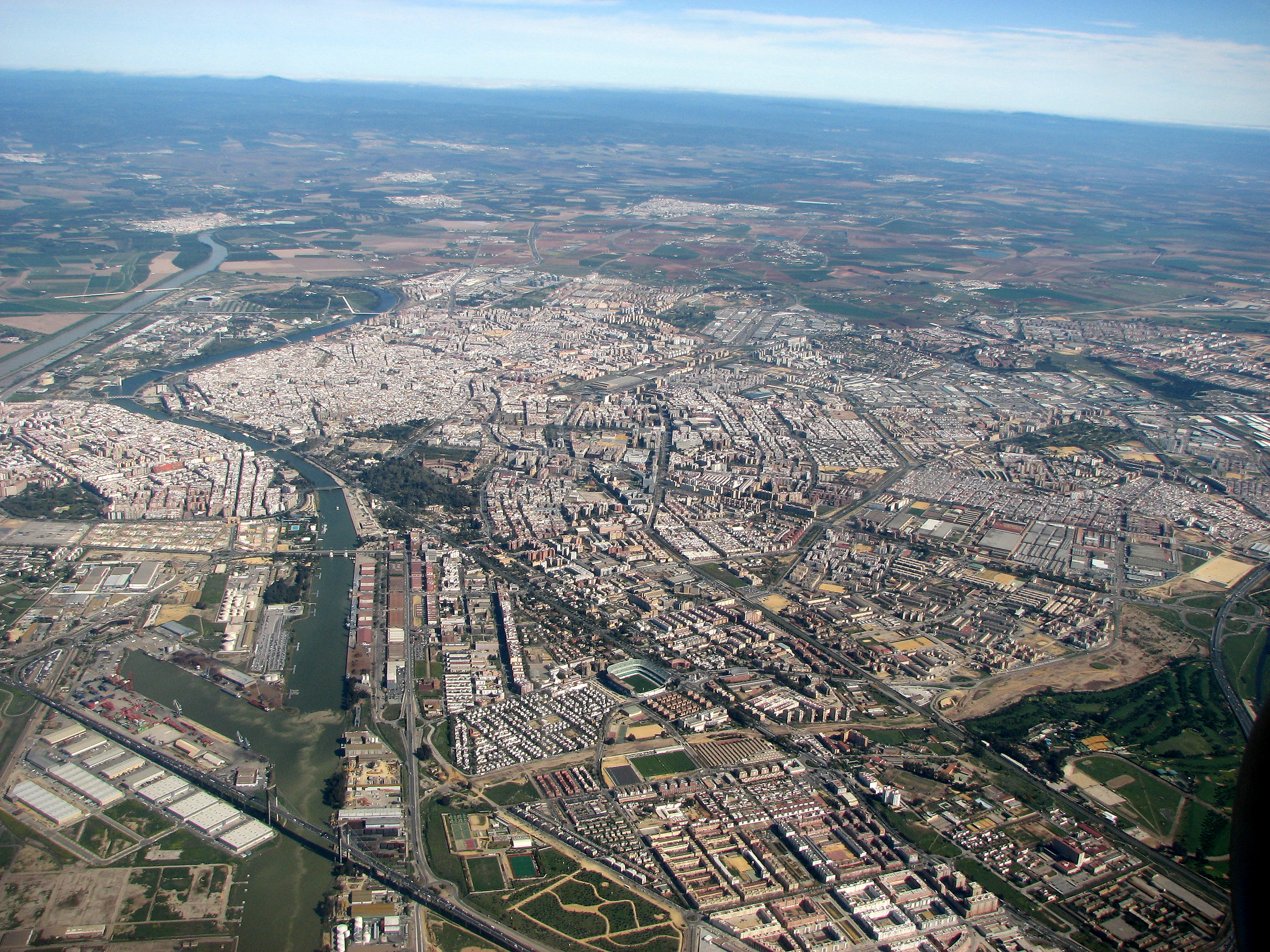 Aerial Photo of Seville from approx. 6500 ft / 2000 m height. Viewing direction north.